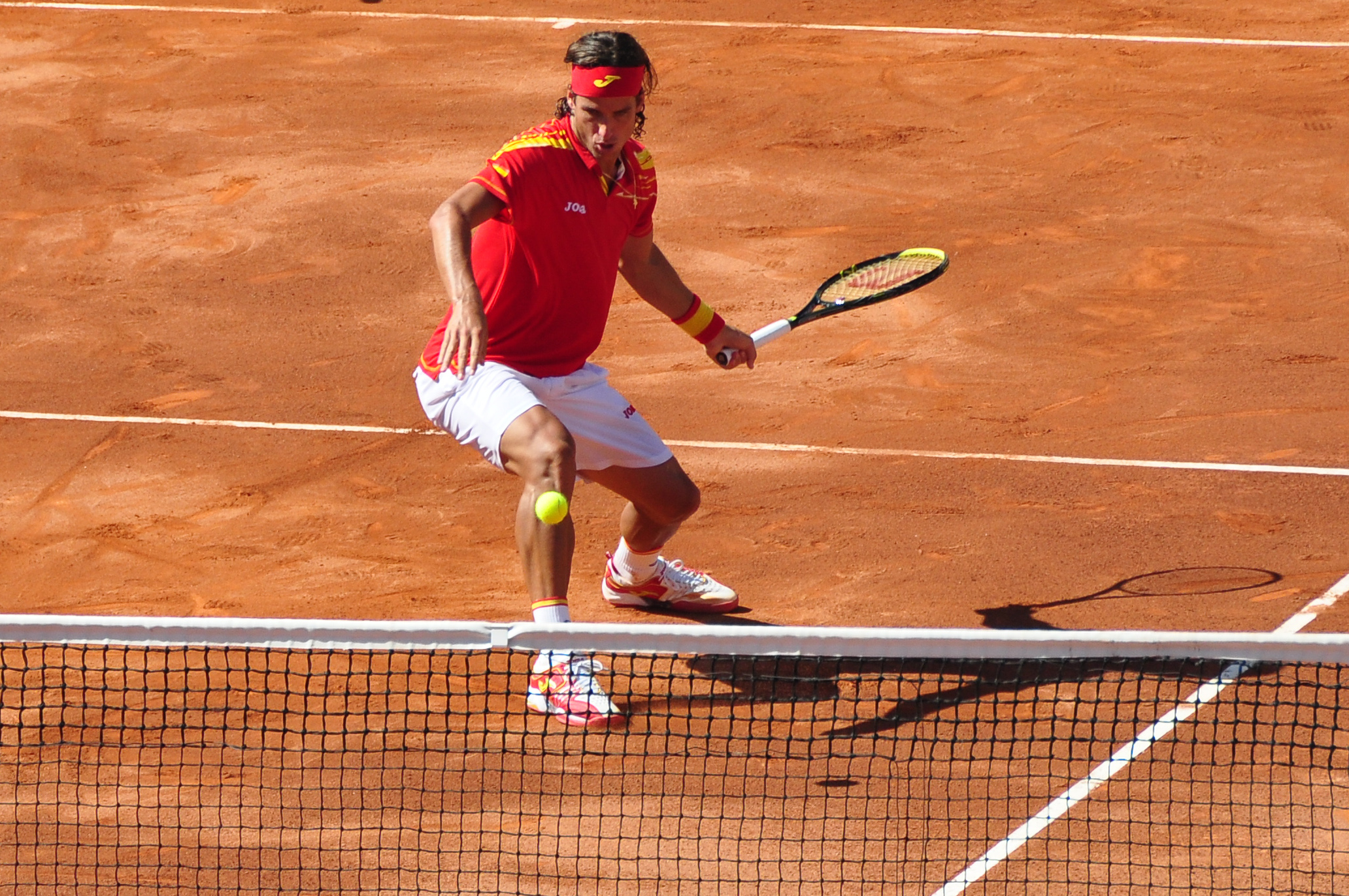 Feliciano López and Fernando Verdasco (unseen) against Nicolas Kiefer and Mischa Zverev (unseen) in the 2009 Davis Cup semifinals (Spain vs. Germany)